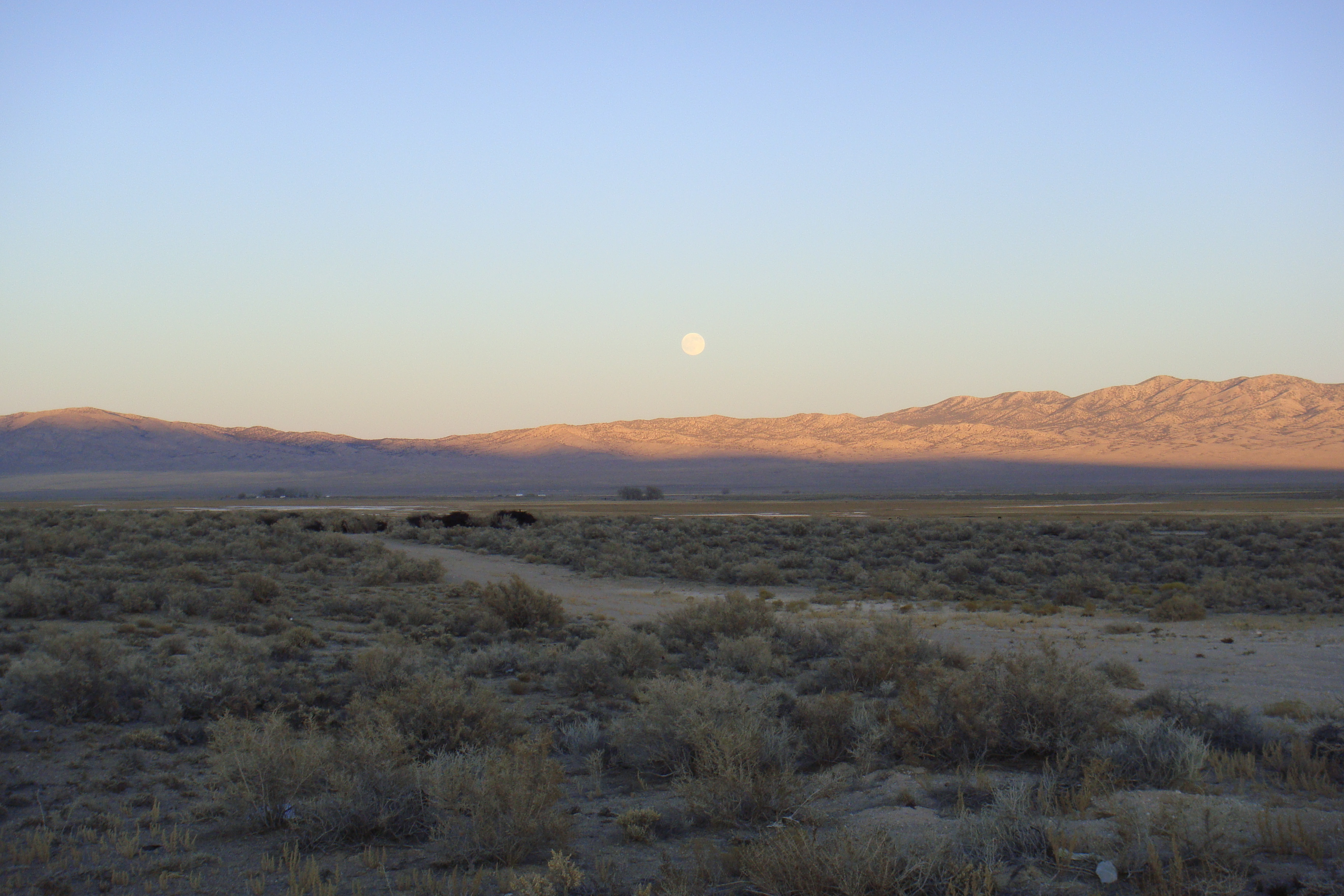 Moonrise over Burbank Hills, from Burbank, Utah, at sunset. The view east, is of the Mountain Home Range (at right, northern section). The valleys are at the Hamlin Valley-(right, south), and the origins of the Snake Valley (Great Basin), left, north-trending.